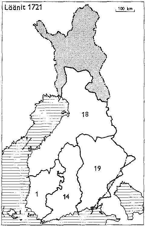 Finnish counties 1721 1 Åbo and Björneborg, 14 Nyland and Tavastehus, 19 Savolax and Kymmenegård, 18 Ostrobothnia